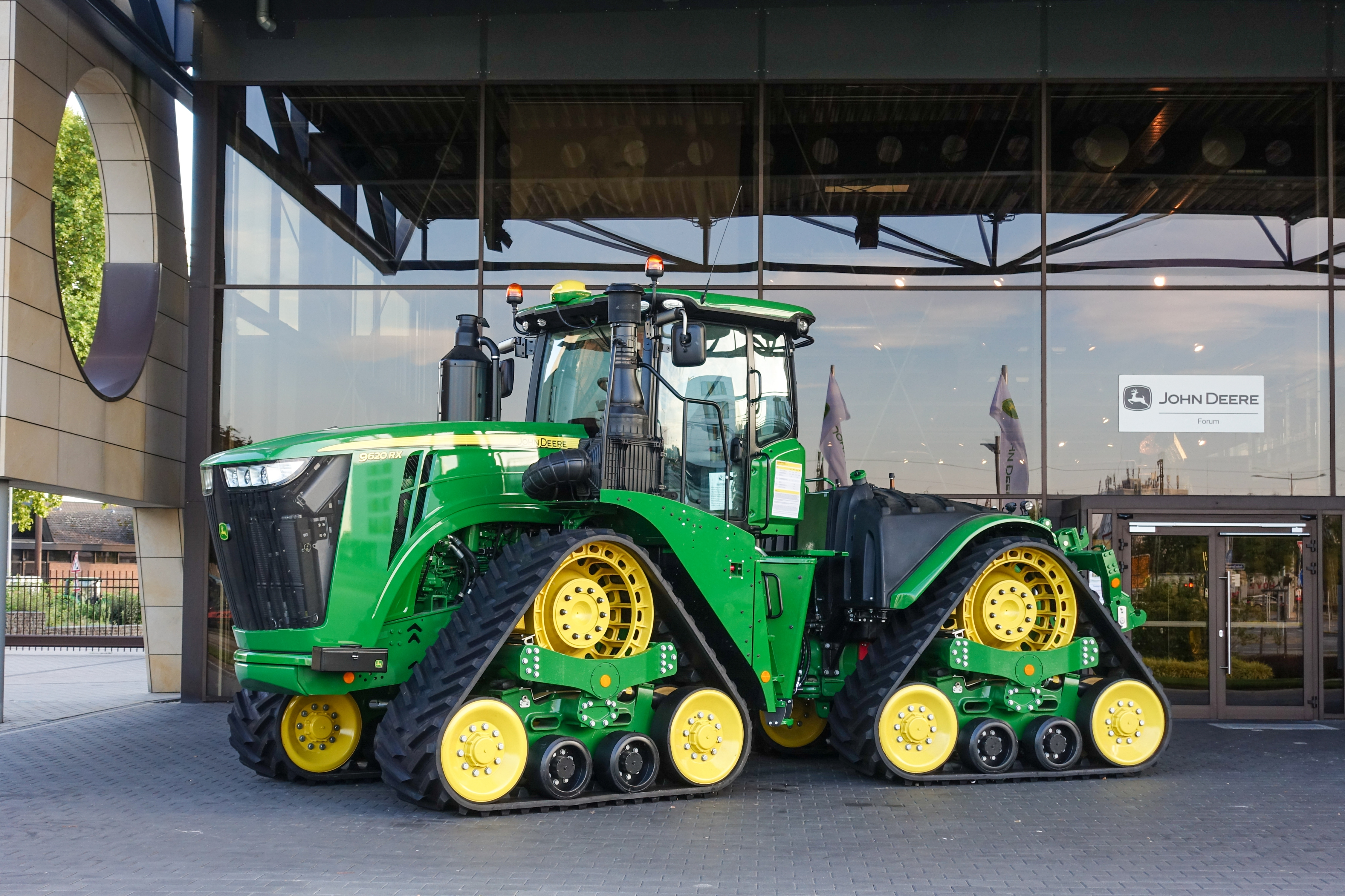 John Deere 9620RX, Tractor, picture taken at John Deere Forum, Mannheim, Germany